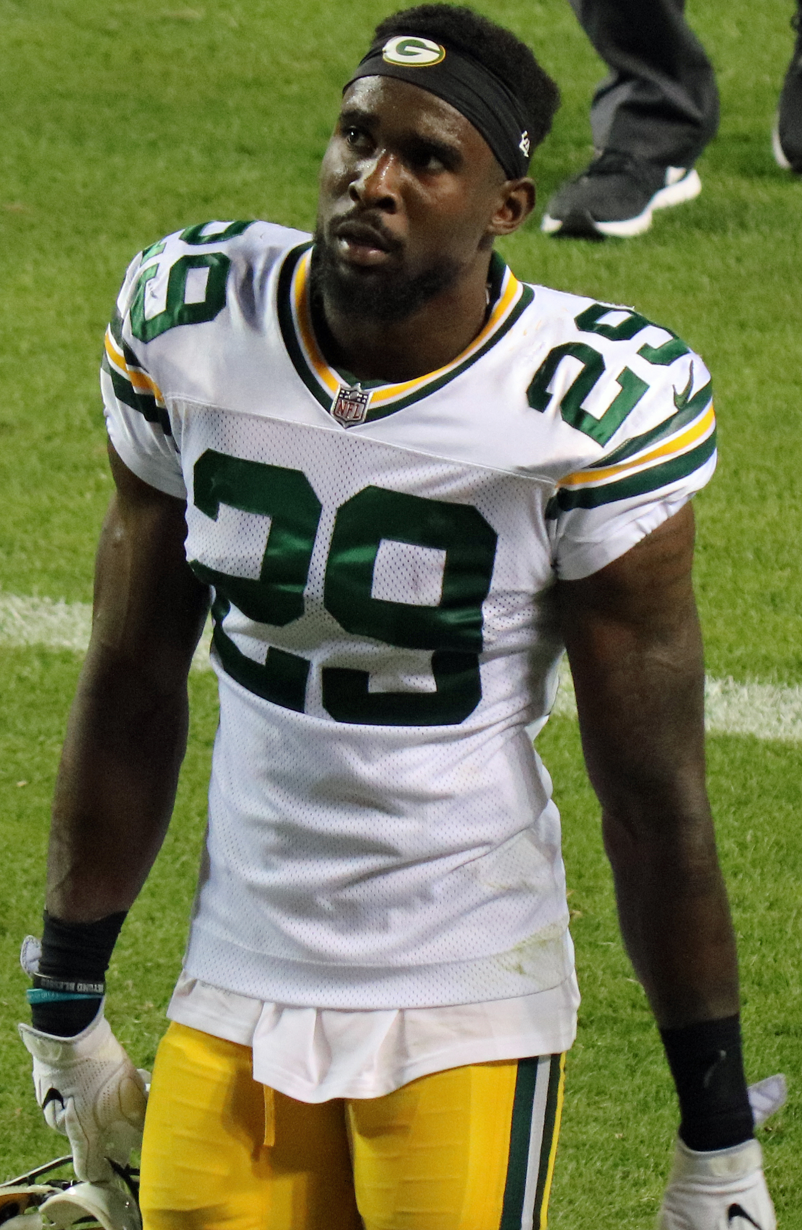 Kentrell Brice, a player on the National Football League.